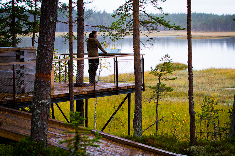 Observation platform over Svansjön lake, Hamra national park